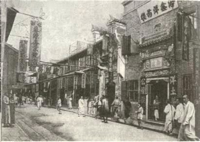 Shanghai in 19th Century